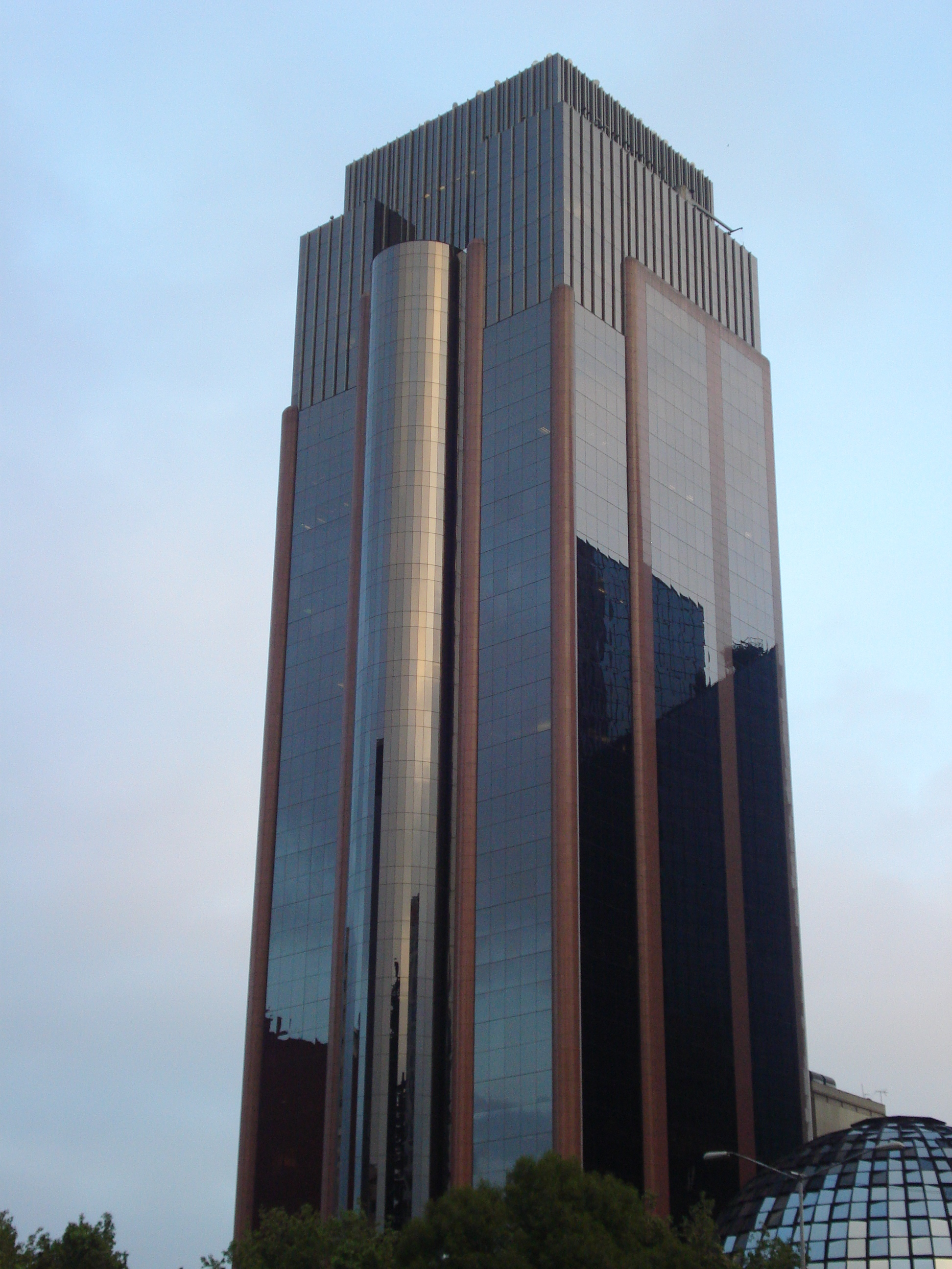 Building of Reforma 265.